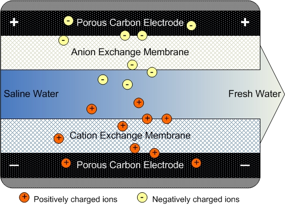 schematic overview of a working Membrane Capacitive Deionization